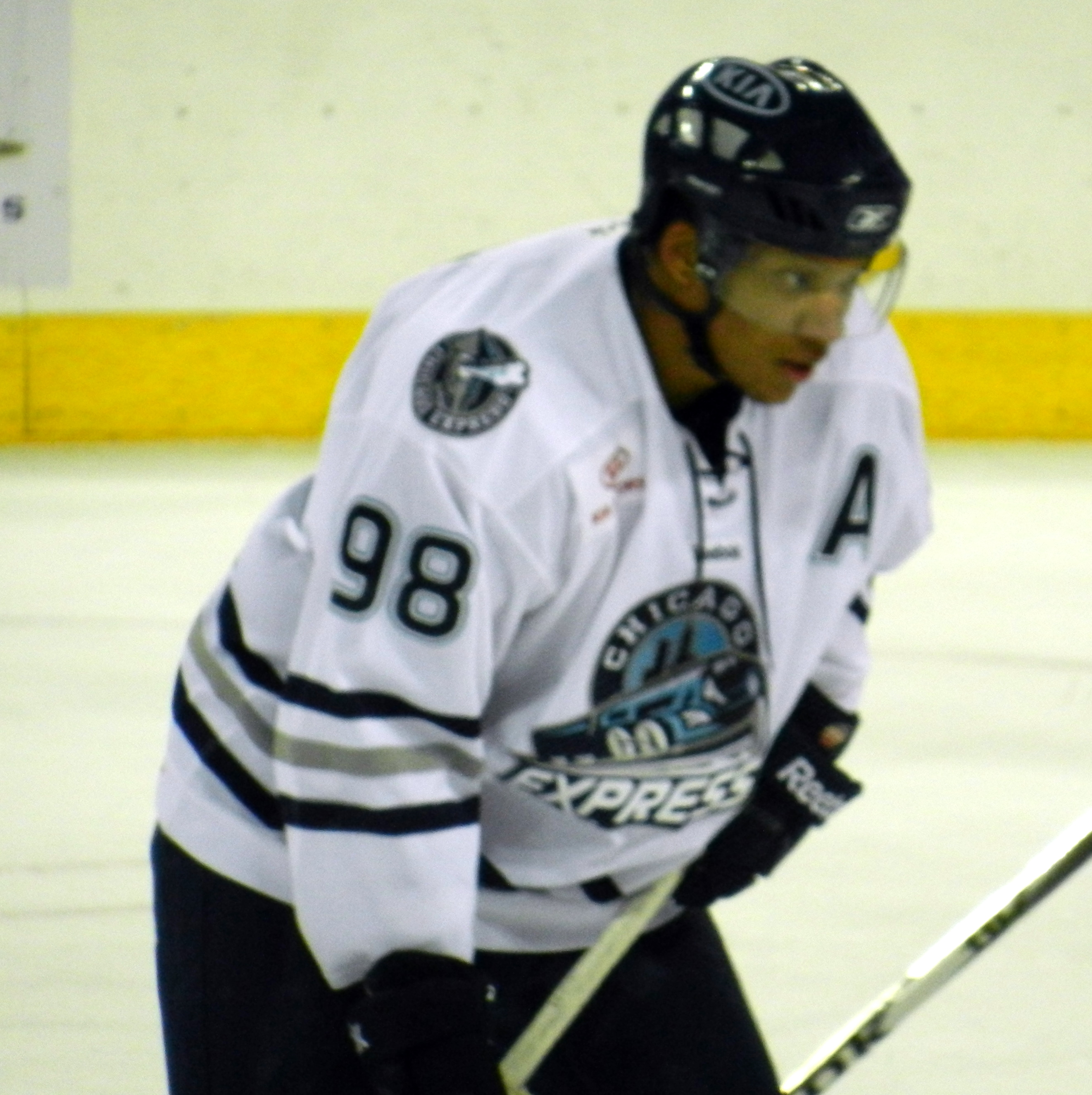 Chaz Johnson playing for the ECHL's Chicago Express during the 2011-12 season